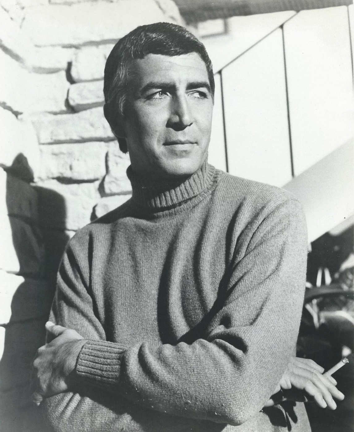 press photo for Patrick O'Neal in Where Were You When the Lights Went Out? in 1968